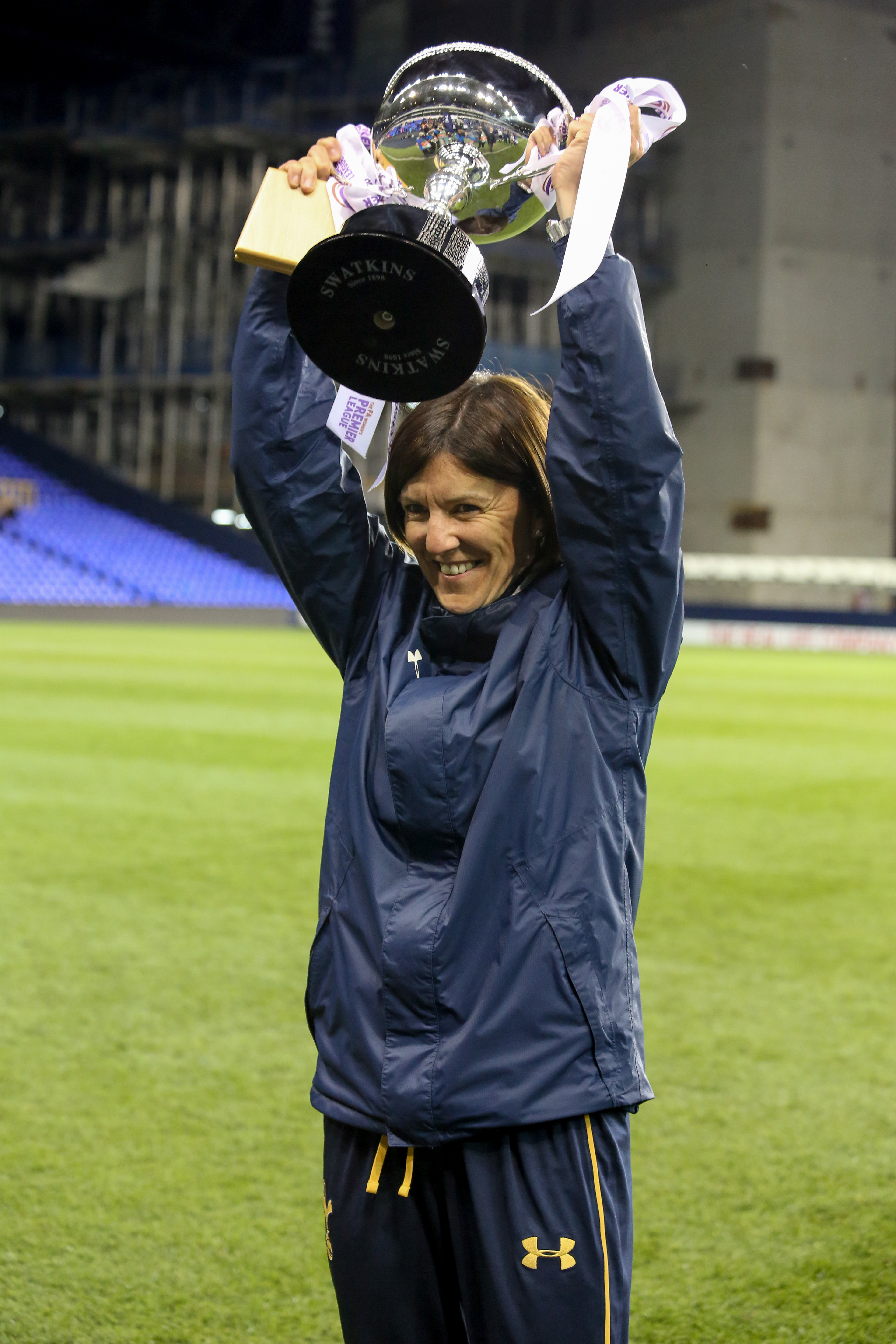 Tottenham Hotspur LFC v West Ham United LFC, 19 April 2017